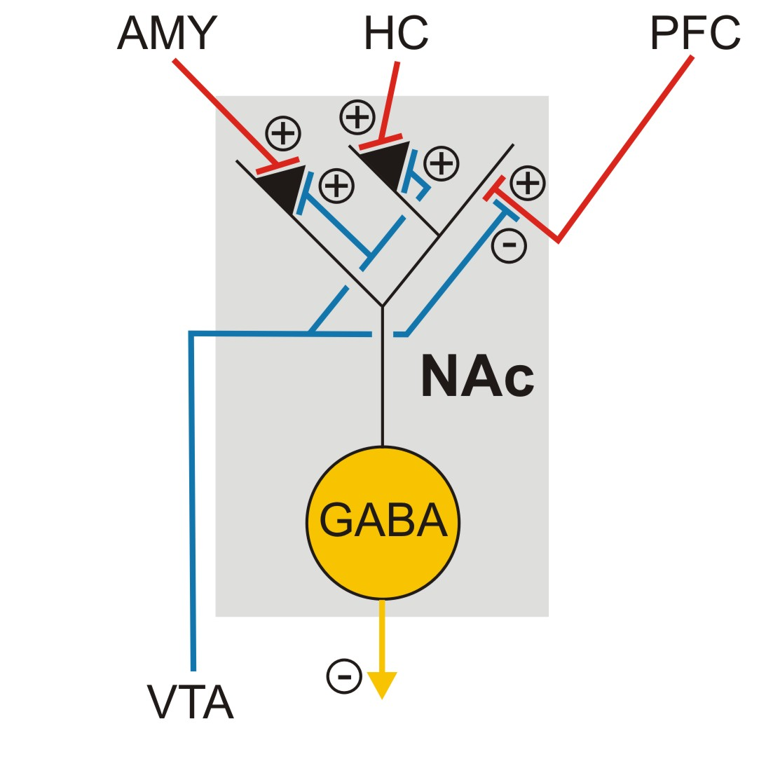 Figure legend in source article (CC-by-2.0): "Neuronal connections of Nucleus Accumbens. Glutamatergic afferences from the prefrontal cortex, hippocampus and amygdala terminate on GABAergic medium spiny neurons and are modulated pre- and postsynaptically by dopamine. The glutamatergic input from the hippocampus and the amygdala drives the medium spiny neurons into a depolarized state and the input from the prefrontal cortex is capable of triggering action potentials [119]. AMY = amygdala; HC = hippocampus; PFC = prefrontal cortex; NAc = nucleus accumbens; VTA = ventral tegmental area."